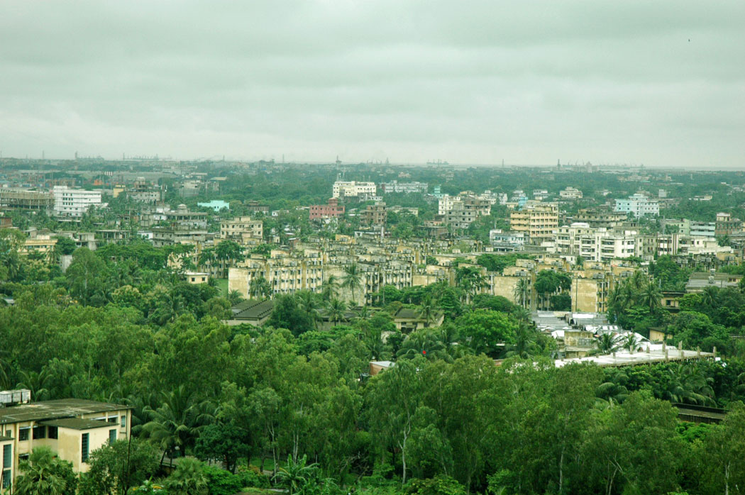 Photos of Agrabad, Chittagong